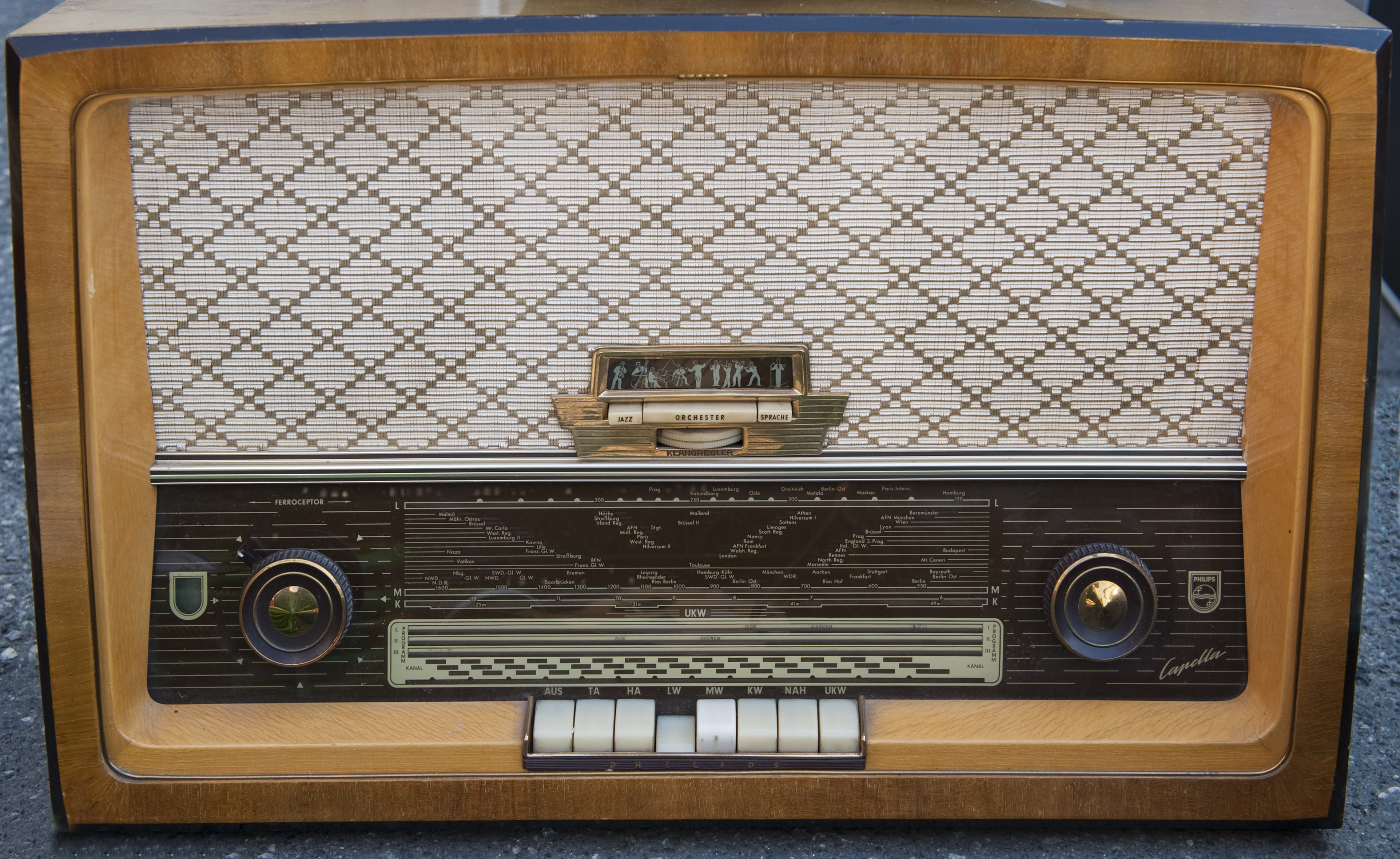 Radio receiver, Philips Capella 663, introduced in 1956